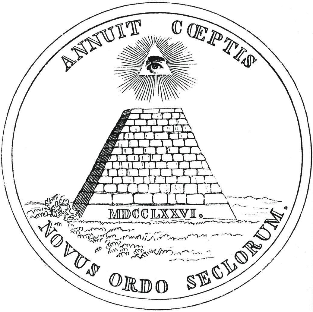 Apparently original version of the reverse of the Great Seal of the United States, drawn by Benson J. Lossing for an 1856 Harper's Magazine article. This version has influenced most depictions of the reverse made since, including the current official version from the Department of State.